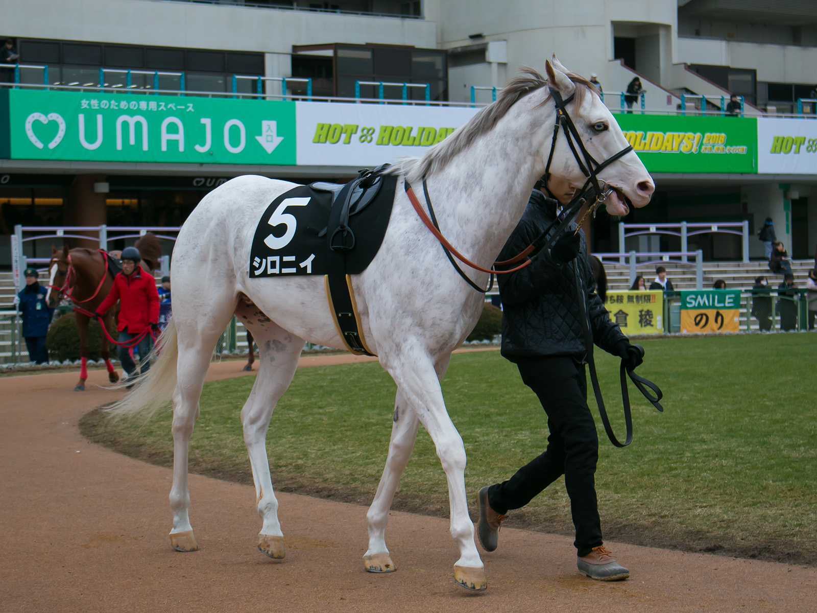 Shironii (Racehorse of Japan. Dominant white horse).